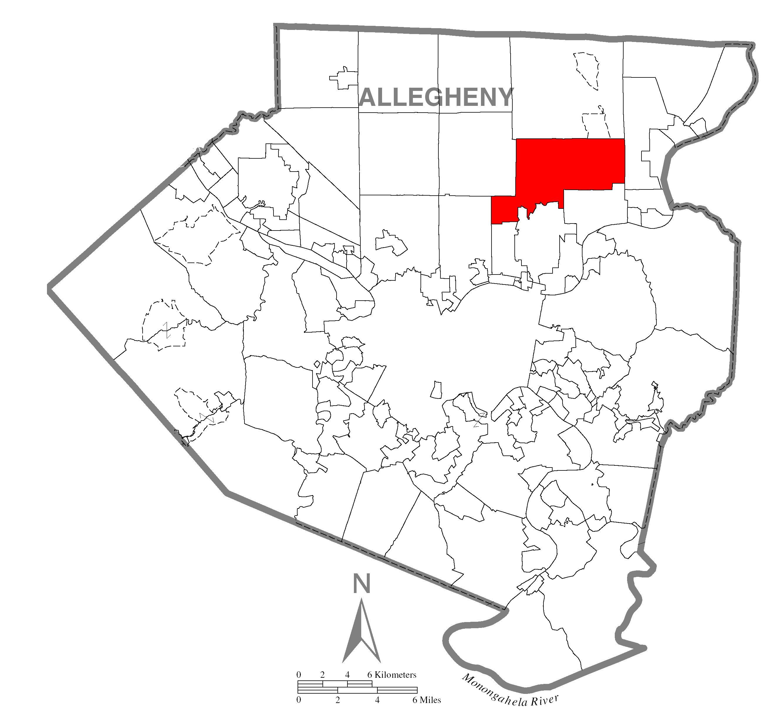 A map of Allegheny County showing Indiana Township, Pennsylvania (alternate) highlighted on the map.